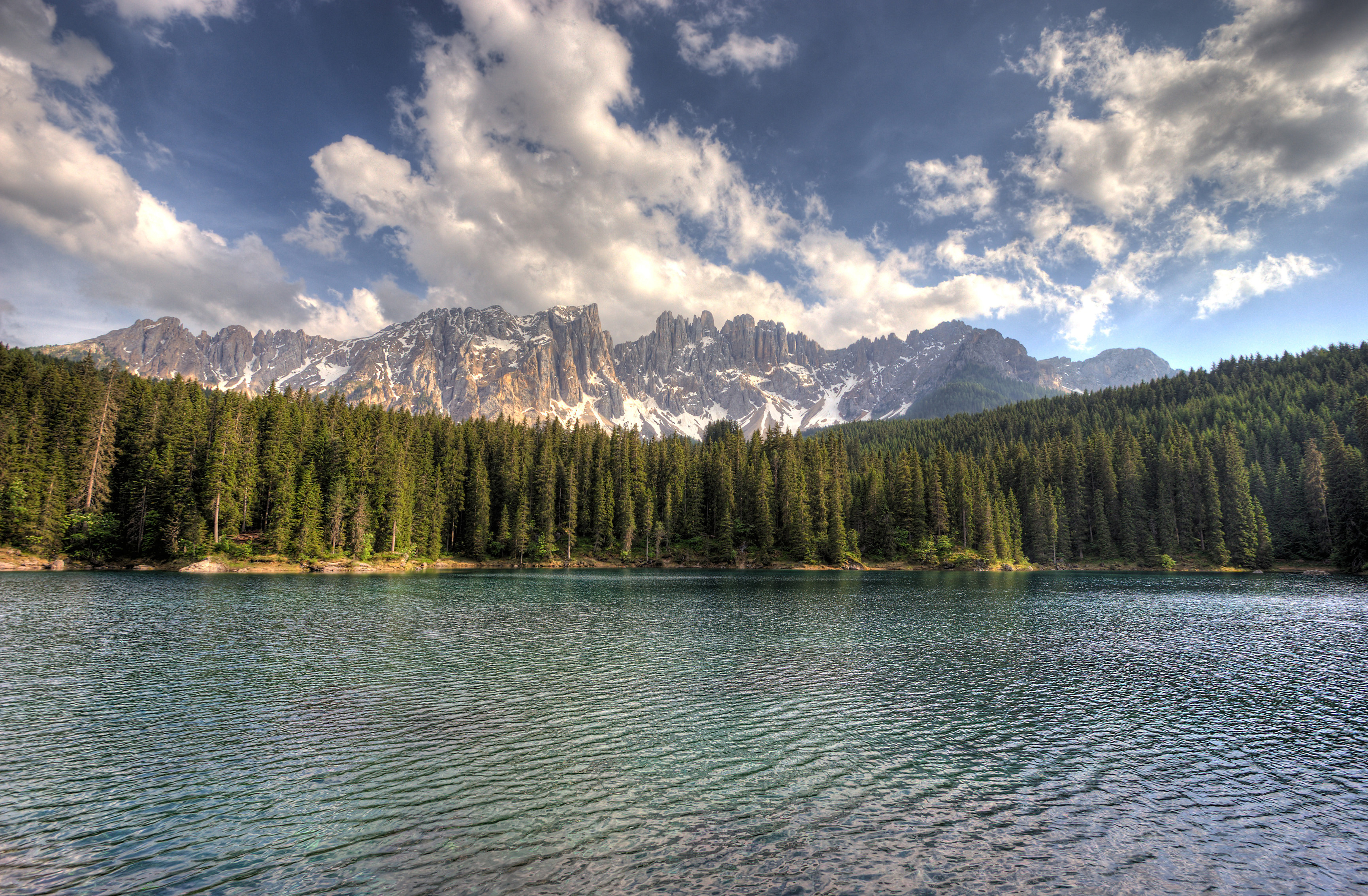 Karersee, South Tyrol, Latemar in the background